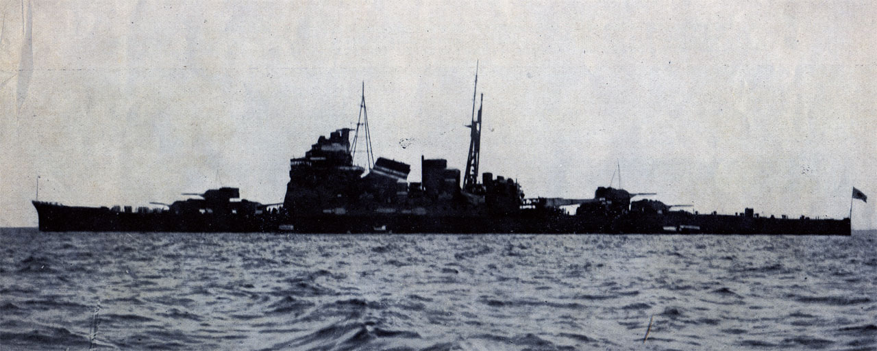 IJN Heavy Cruiser Atago